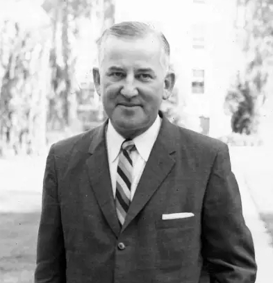 Cropped portrait of former Green Bay Packers president Dominic Olejniczak.